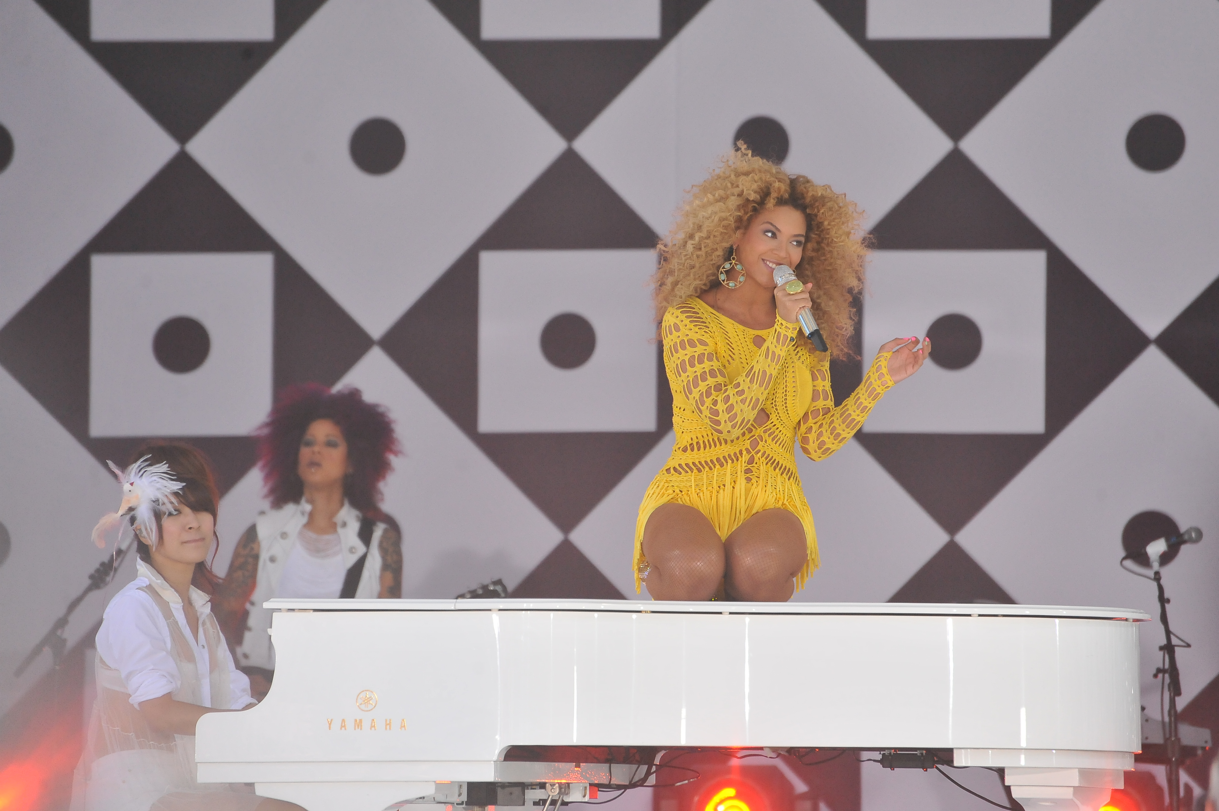 BEYONCE CONCERT IN CENTRAL PARK 2011 / Good Morning America's Summer Concert Series - Central Park, Manhattan NYC - 0701/11